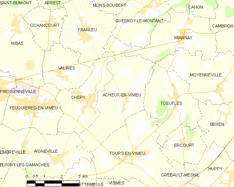 Map of French municipality Acheux-en-Vimeu